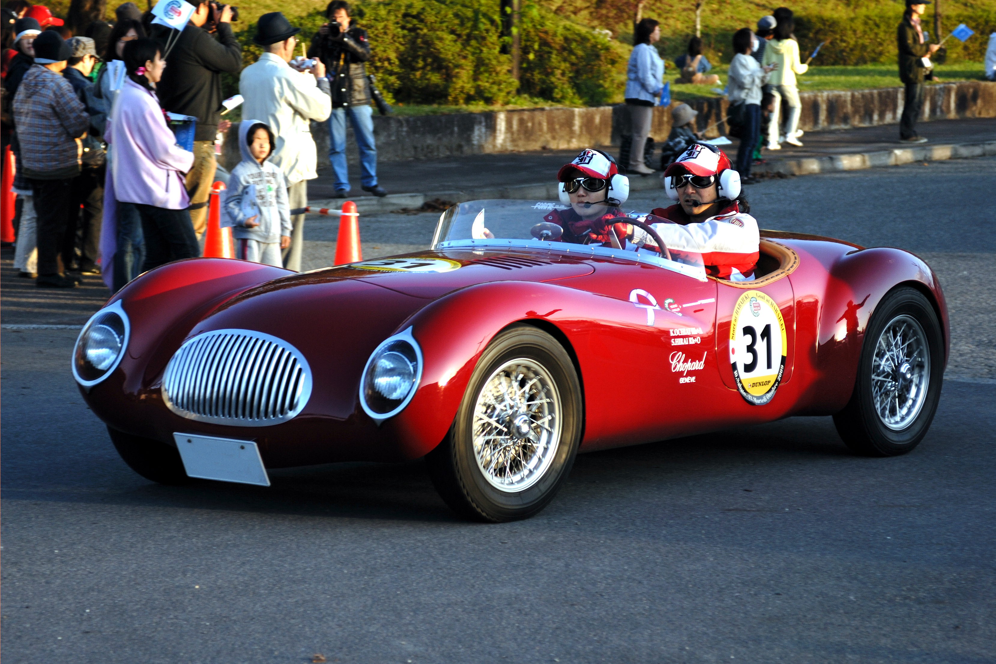 Roselli 1100 Sport. Fiat Millecento engine, body by Colli